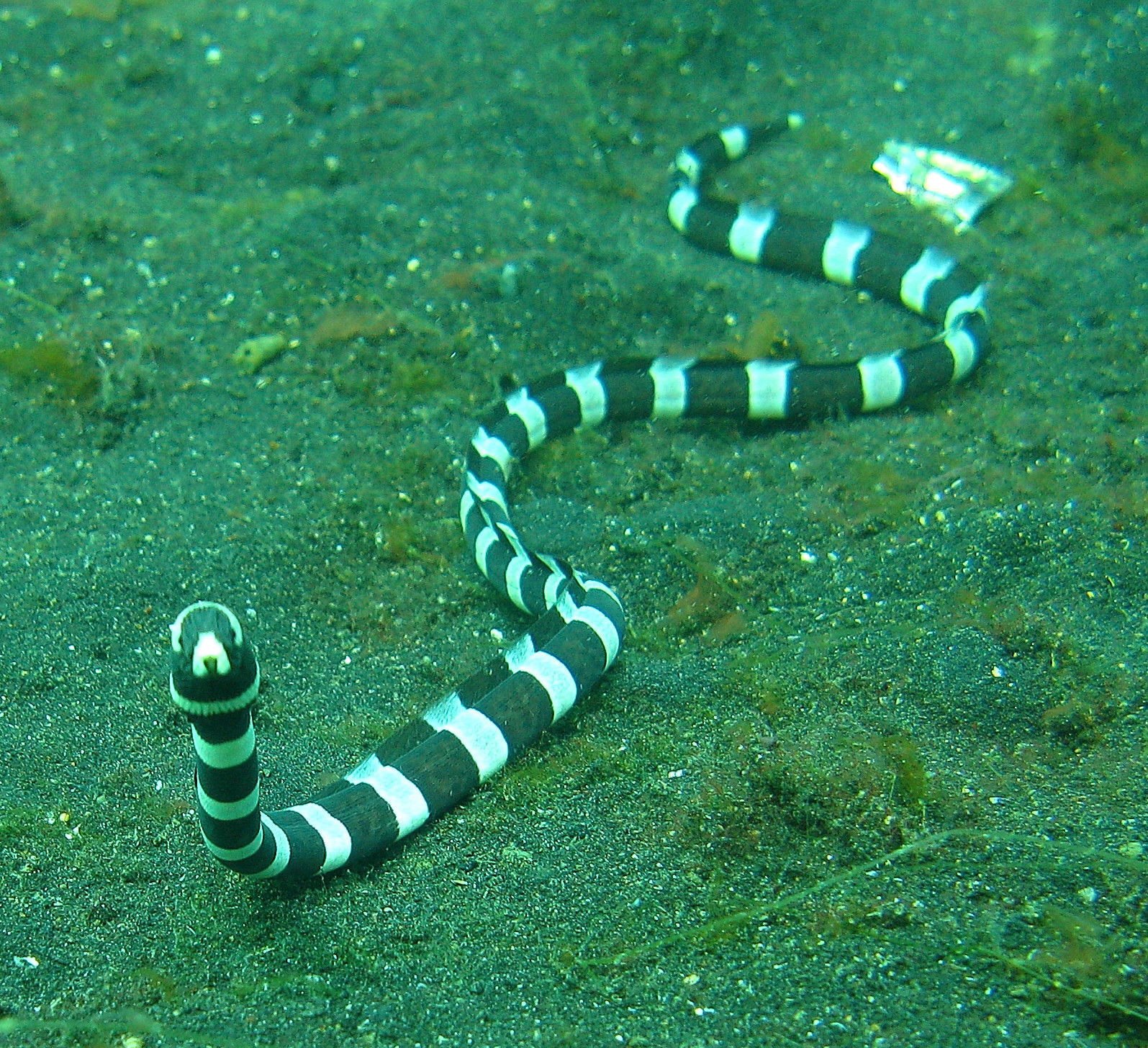 Harlequin snake eel (Myrichthys colubrinus)